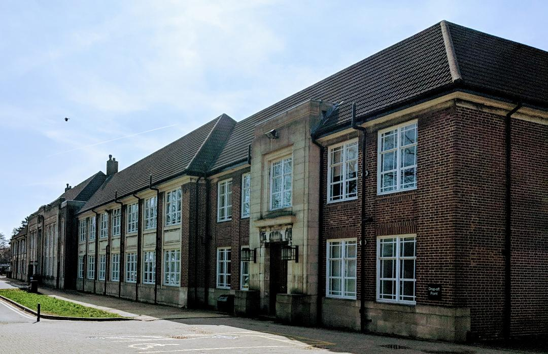 High Storrs School, Eccleshall, Sheffield